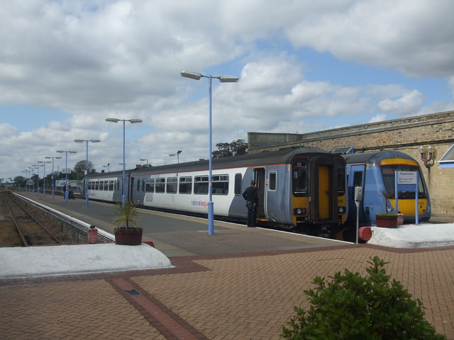 Diesel Multiple Units stand at Lowestoft The nearest is due for Norwich while the one I arrived on (class 170 in blue) was from London and will return to London.